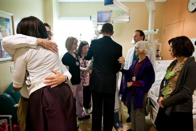 U.S. President Barack Obama and First Lady Michelle Obama meet Ron Barber, district director for U.S. Representative Gabrielle Giffords, and his family while he recuperates at the University Medical Center from injuries sustained during the 2011 Tucson shooting.